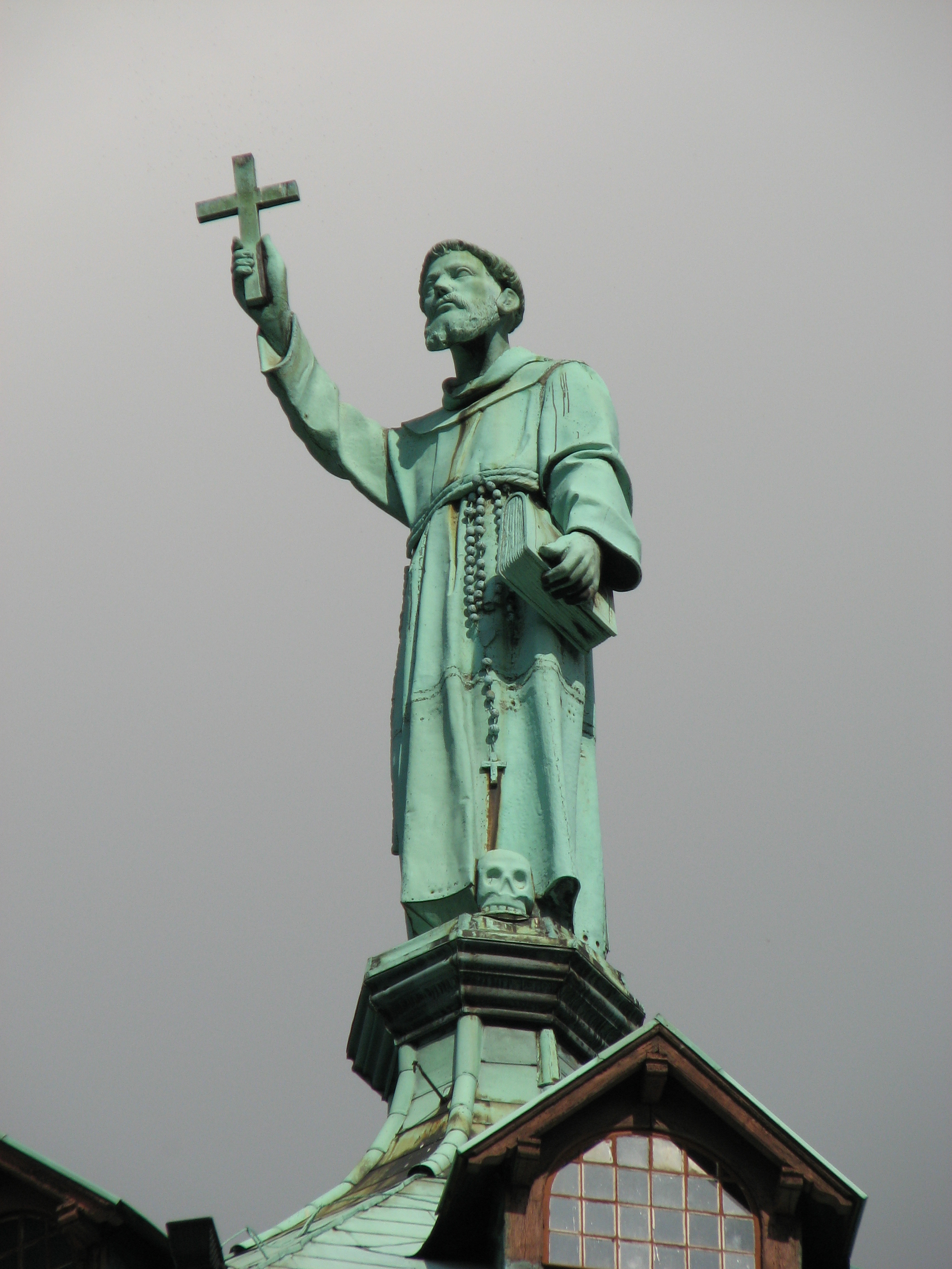 The statue of st. Francis of Assisi, Basilica in Katowice Panewniki, Poland.